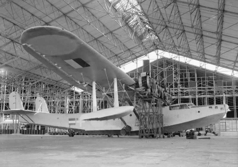 Mechanics of 3219 Servicing Commando, Royal Air Force (RAF), check the engines of a Japanese Kawanishi H6K 'Mavis' flying boat at Sourabaya (Soerabaja), Java, in preparation for an air test flight. Of interest are the markings added by Indonesian nationalists and the fact that an additional band of blue has been added to the fuselage marking by the Dutch.